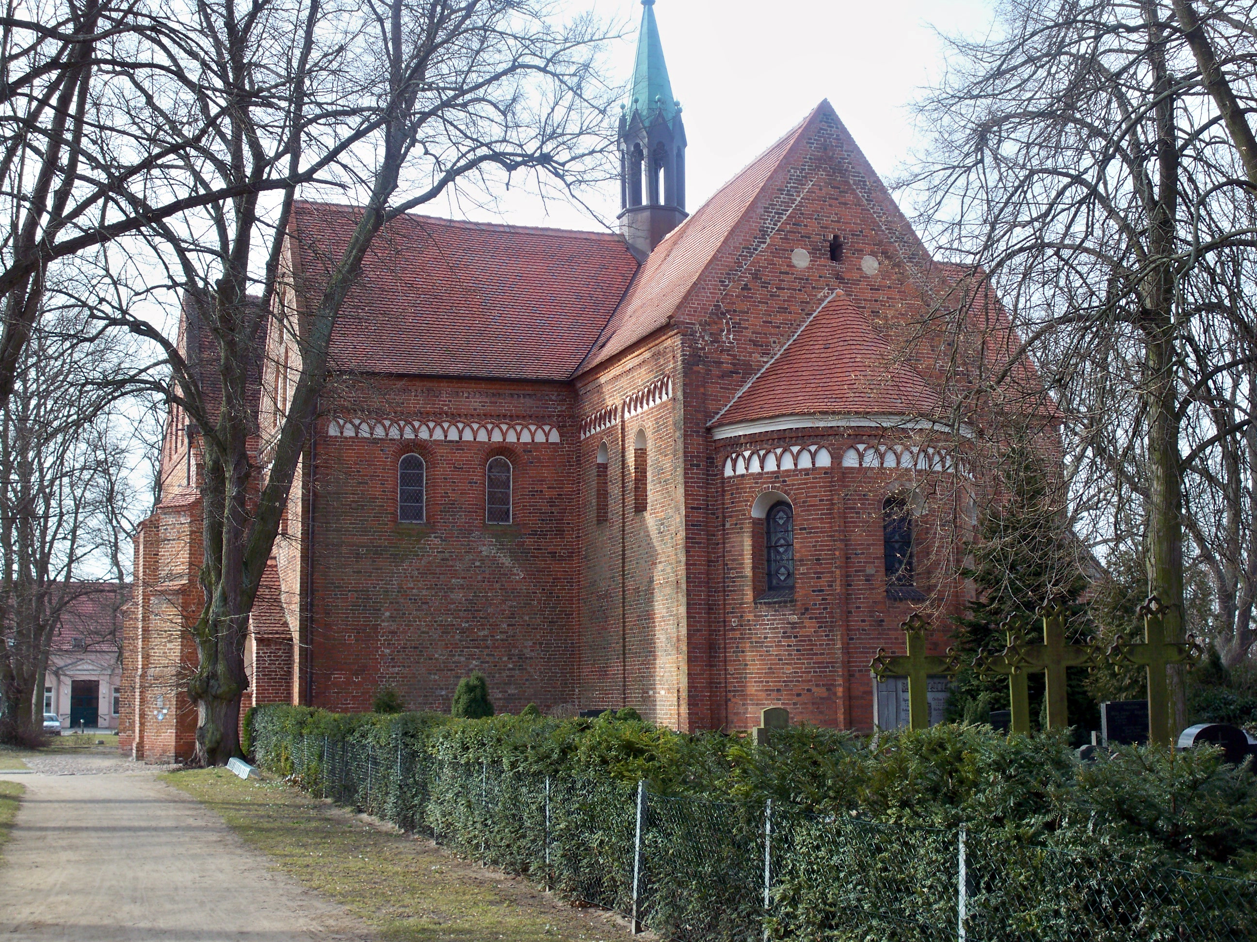 Arendsee, Saxony-Anhalt, church